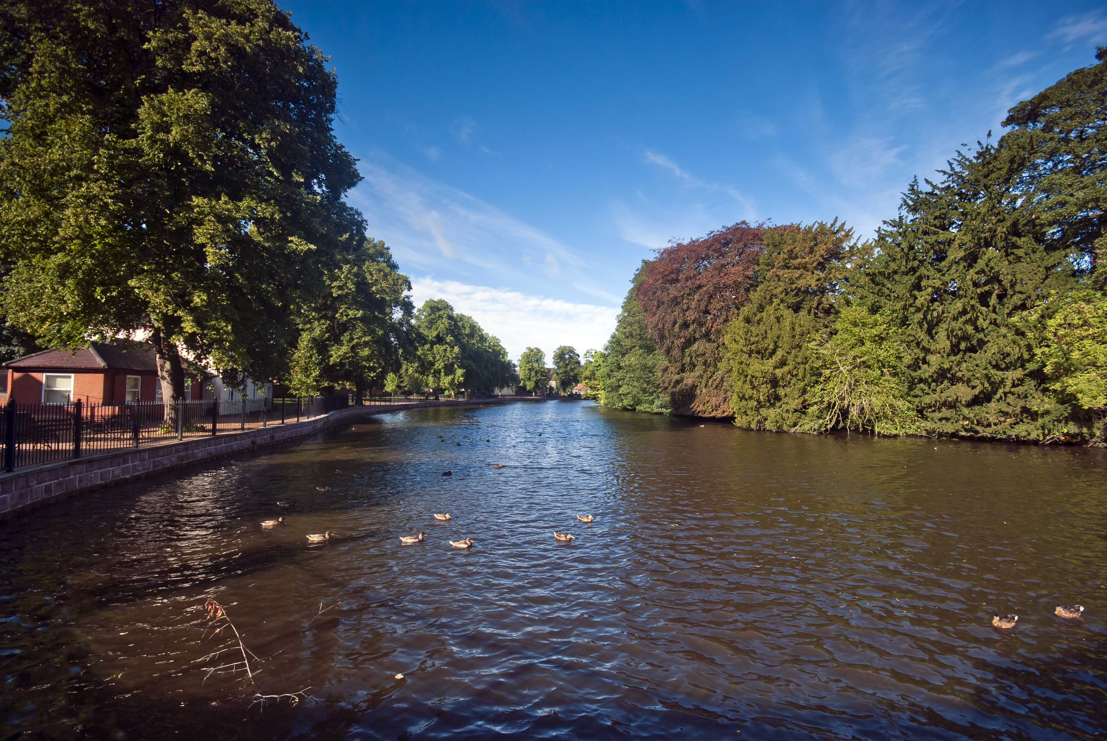 Minster Pool as viewed from Dam Street in the City of Lichfield, England. Taken in August 2011 after recent restoration works.